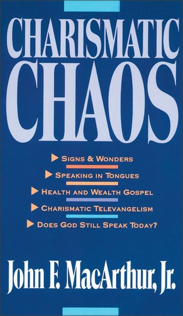 Book cover of John MacArthur: Charismatic Chaos.